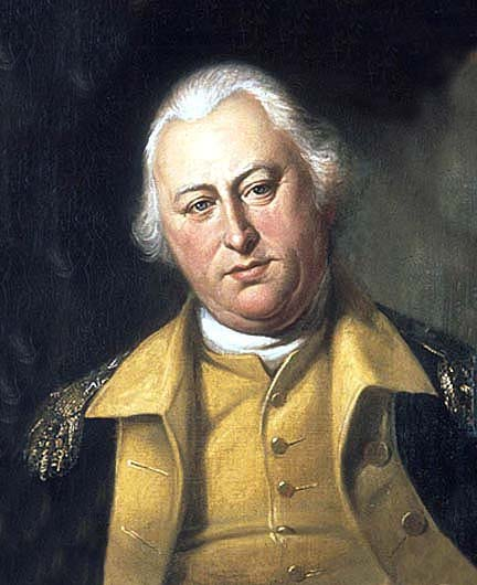 General Benjamin Lincoln, painted by Charles Willson Peale.